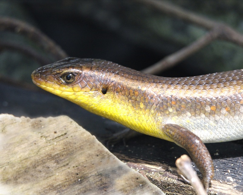 Common sun skink aka Many-lined Sun Skink Mabuya multifasciata Family : SCINCIDAE Kranji Nature Reserve, Singapore 21st. June 2009 690V8467.jpg